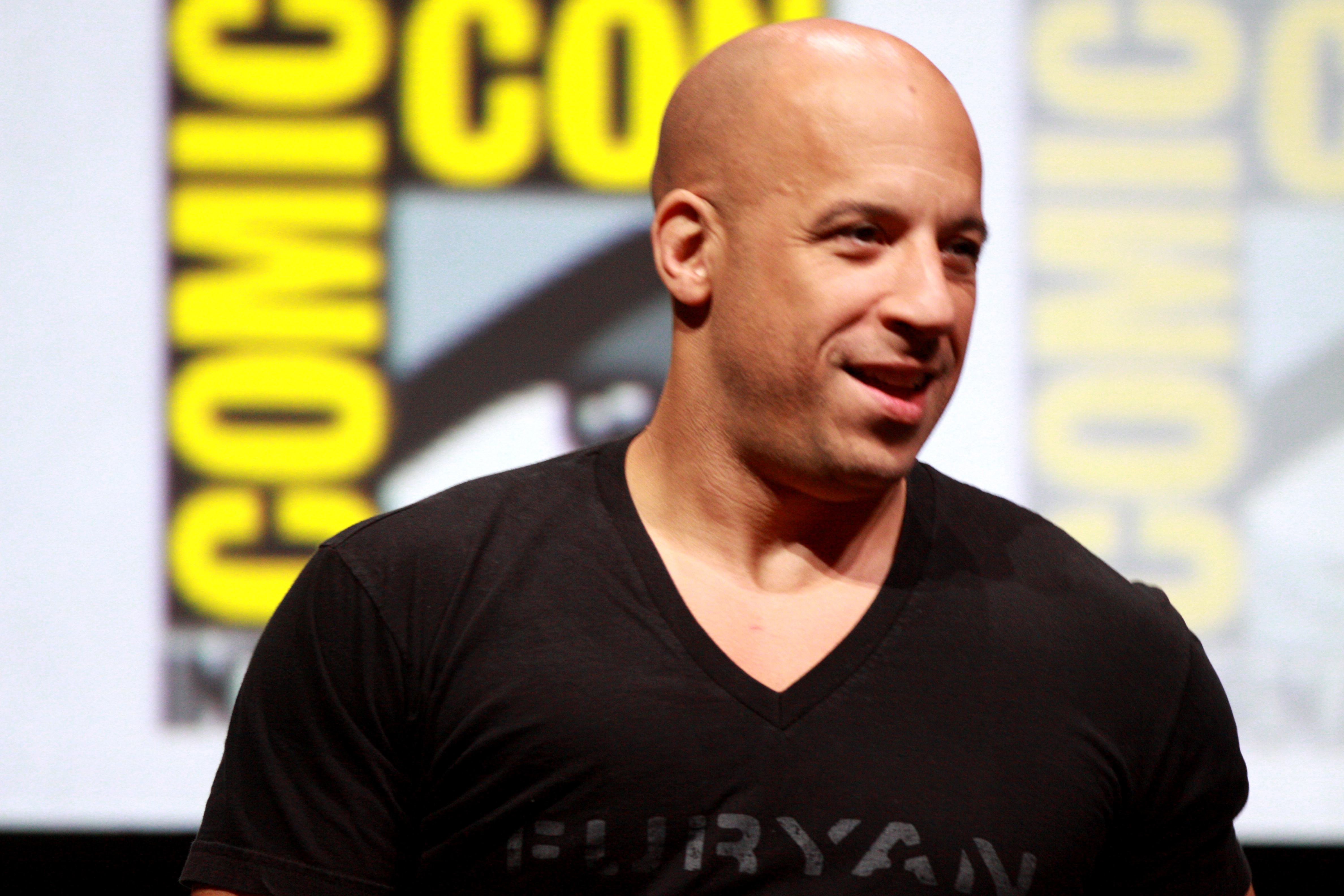 Vin Diesel speaking at the 2013 San Diego Comic Con International, for "Riddick", at the San Diego Convention Center in San Diego, California.